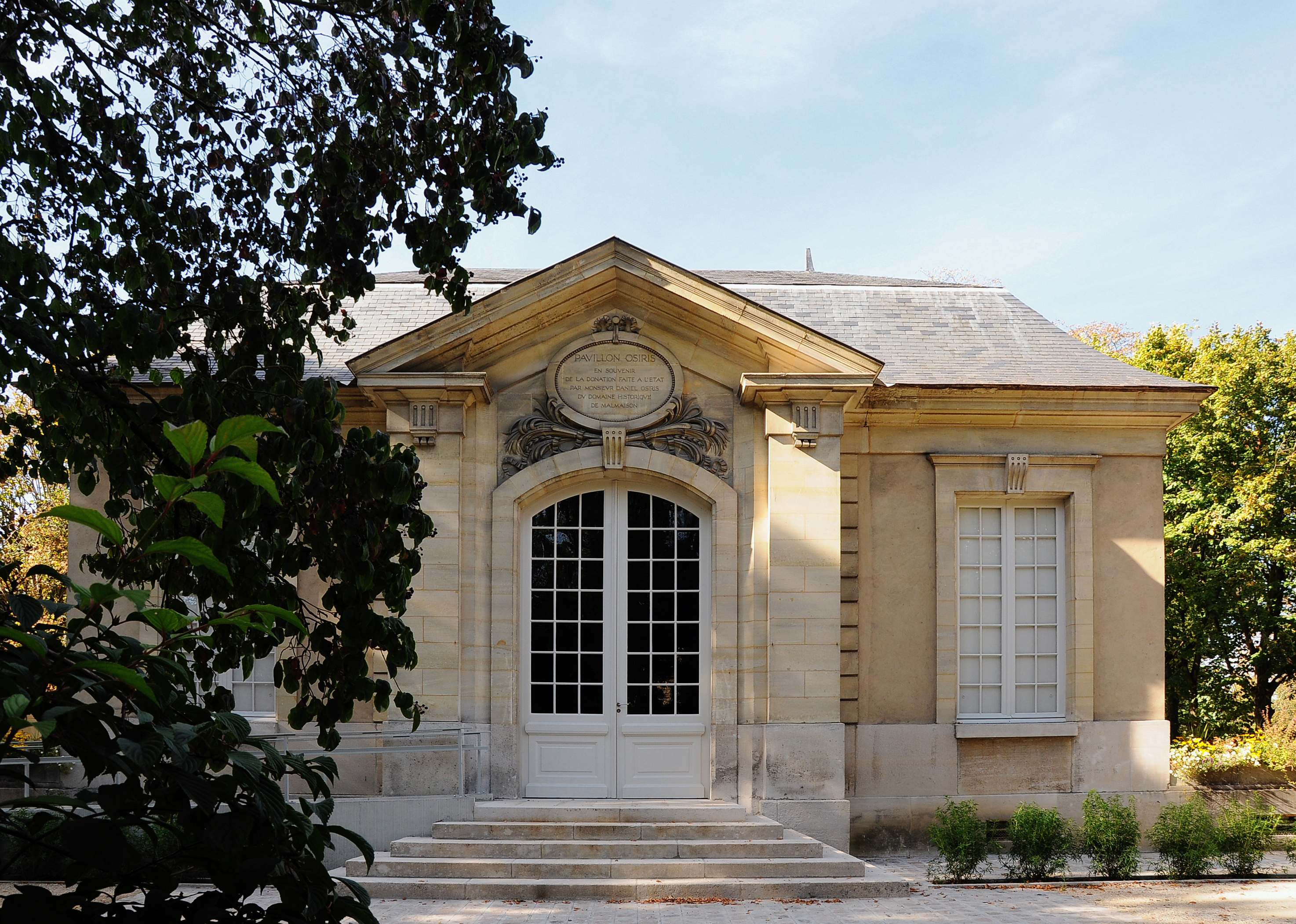 Pavillon Osiris in the entrance of the domain of Château de la Malmaison in Rueil-Malmaison, France. Finished in 1924 and sheltering the collection of the Osiris house rue Labruyère, in Paris.